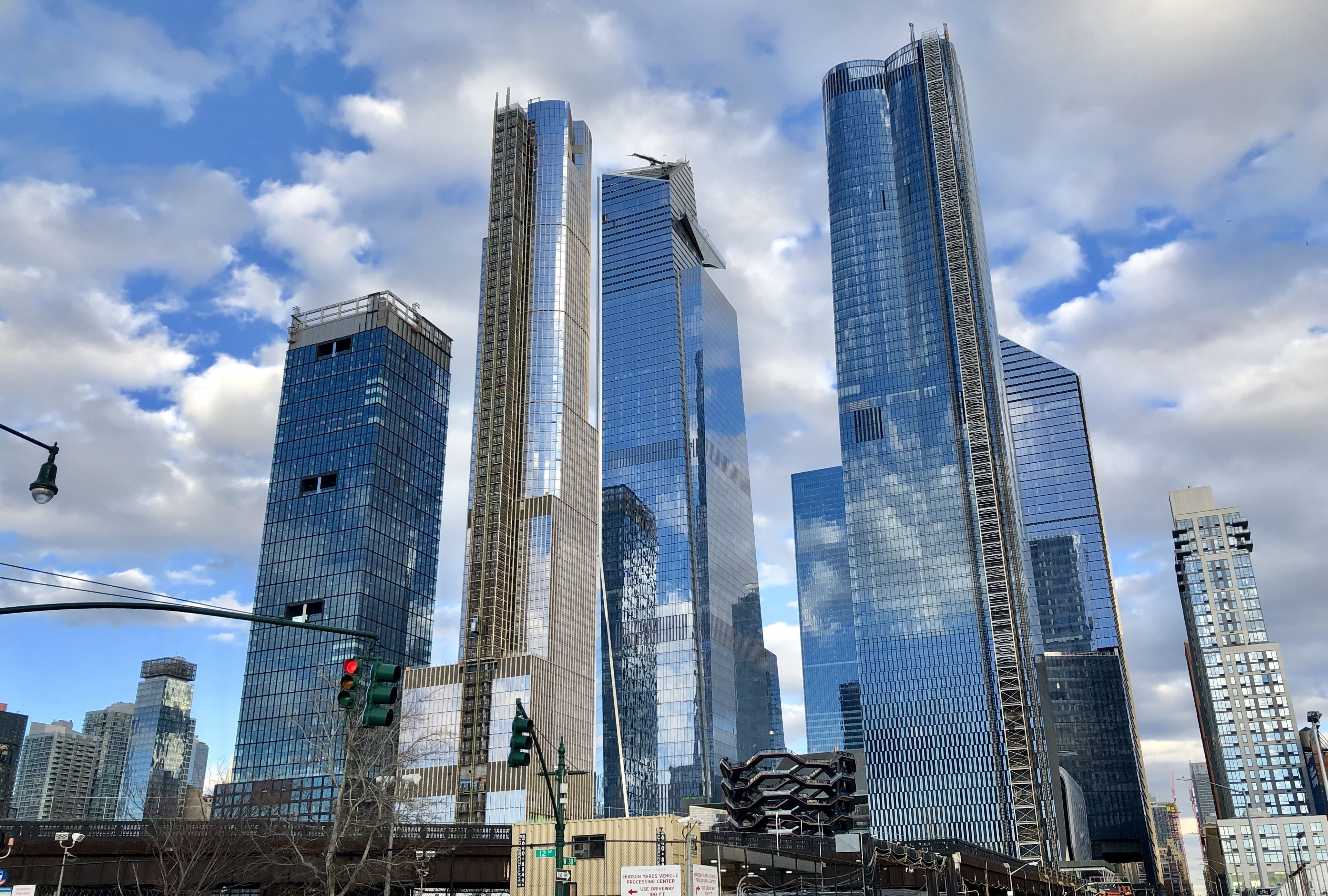 Hudson Yards in March 2019. Photo by Chris6d.